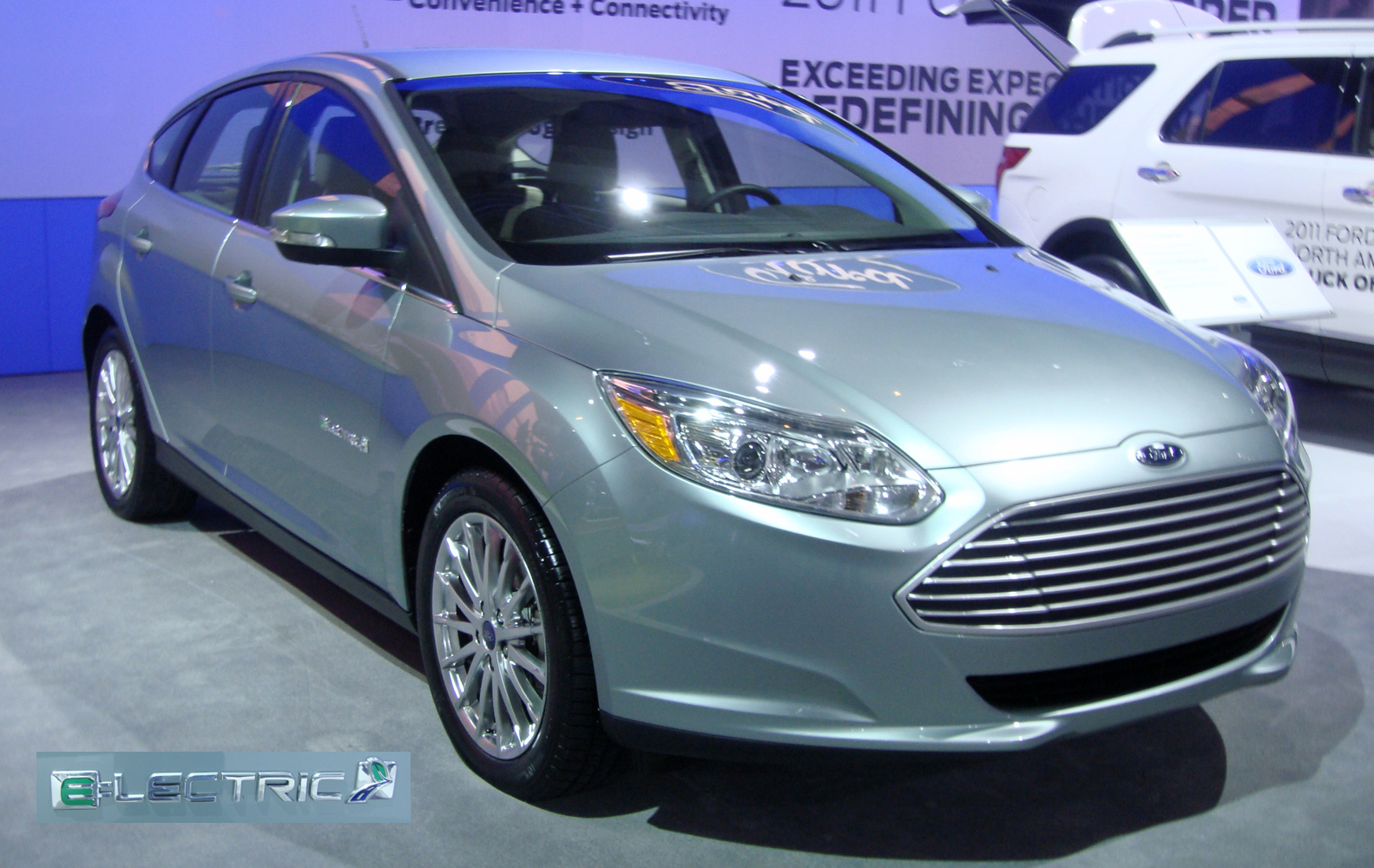 Ford badging for the Focus Electric (taken at the 2011 Washington Auto Show)